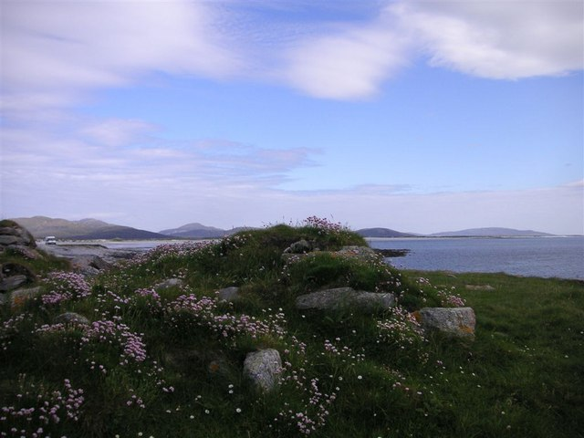 The broch at Dun Vulan, South Uist Built in the Iron Age, in the last few centuries BC, Dun Vulan broch would have dominated the landscape. More details on the Kildonan Museum website